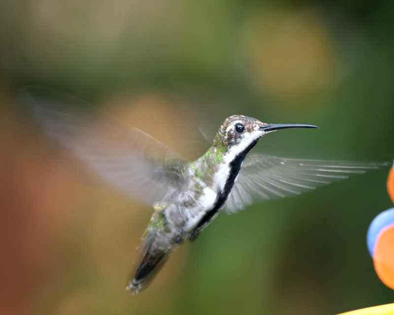 Female Black-throated mango hummingbird (Anthracothorax nigricollis) at Iguasu Falls, Argentina, 4th. April 2006.